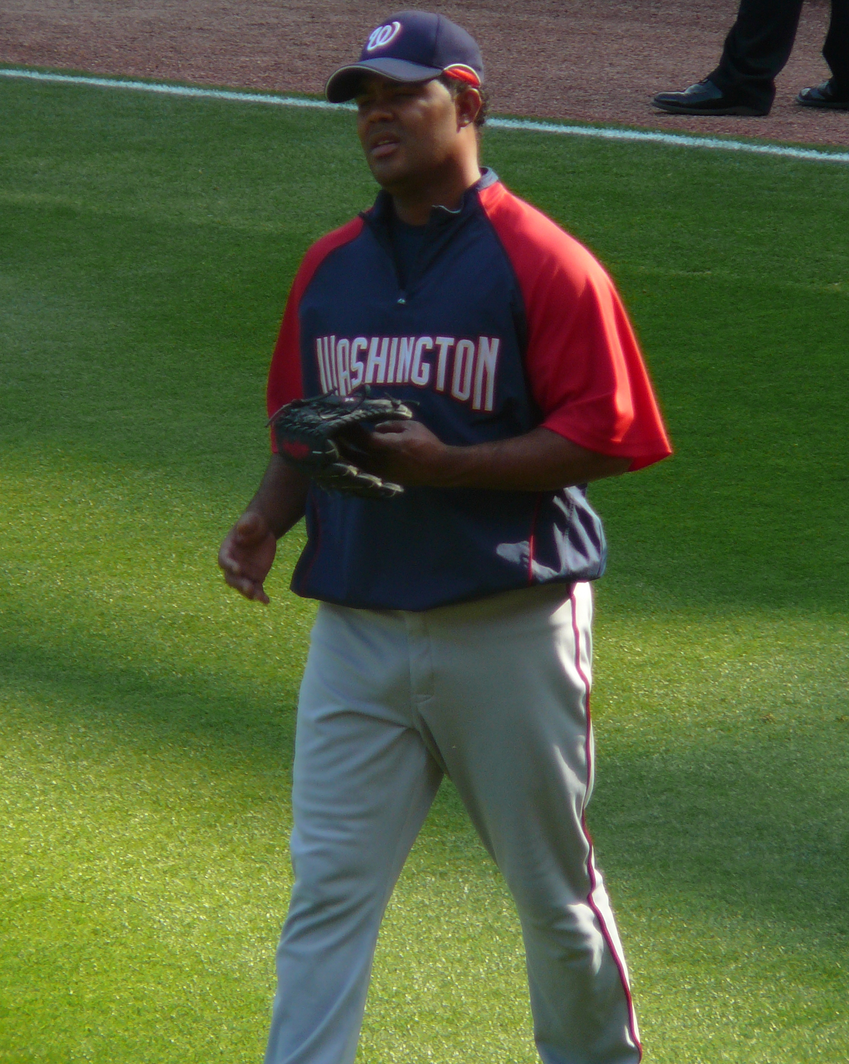 User:Chrisjnelson agreed to license this image of en:.jpg under a free attribution license. Any use of this image must be attributed; this means that Photo by :en:User:Chrisjnelson|Chris Nelson should be in the picture caption. 01:31, 24 April 2008 . . Chrisjnelson . . 1,728×2,165 (2.77 MB)